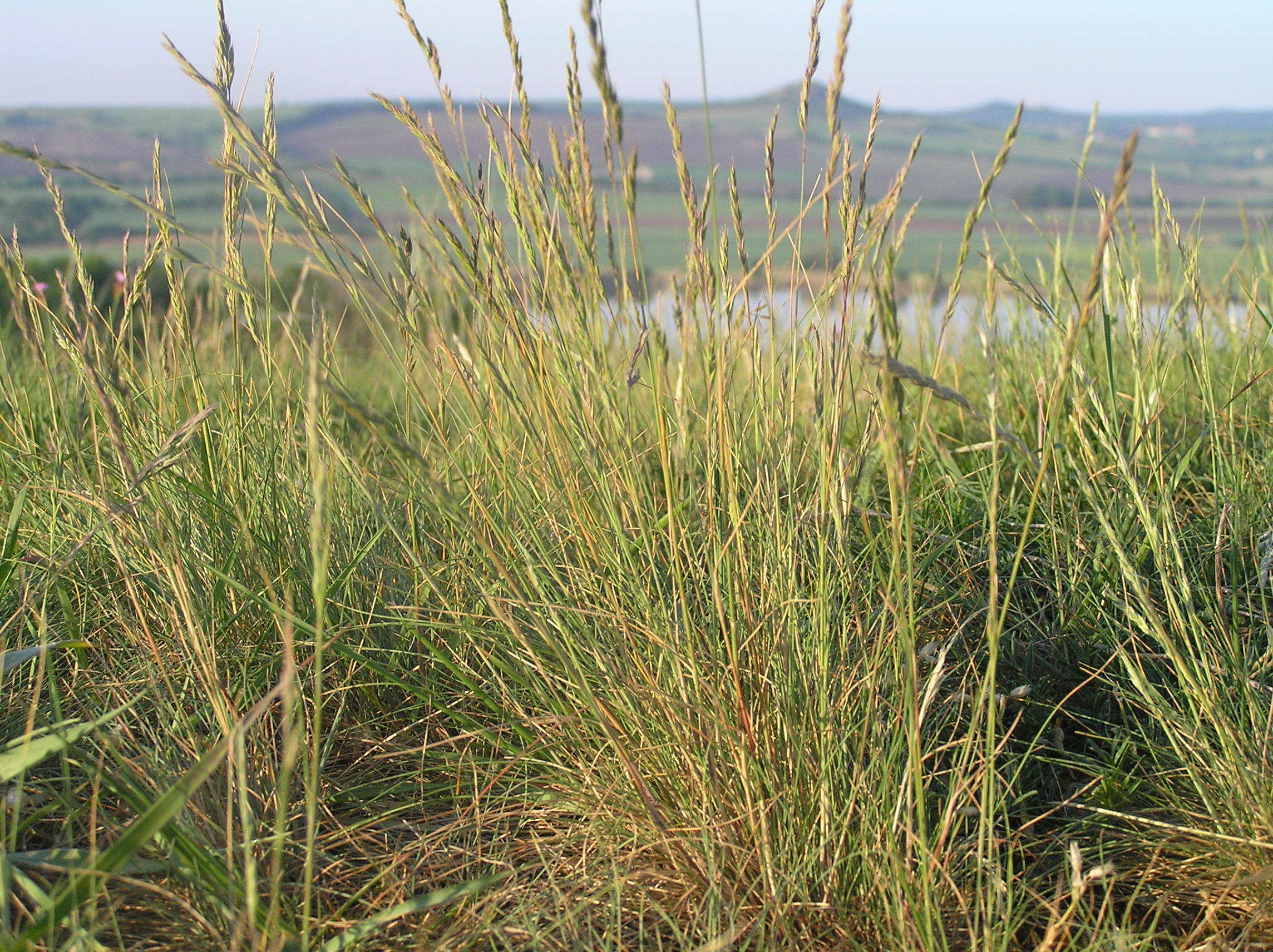 Festuca valesiaca, the hill Šibeničník near Mikulov, Southern Moravia, Czech Republic